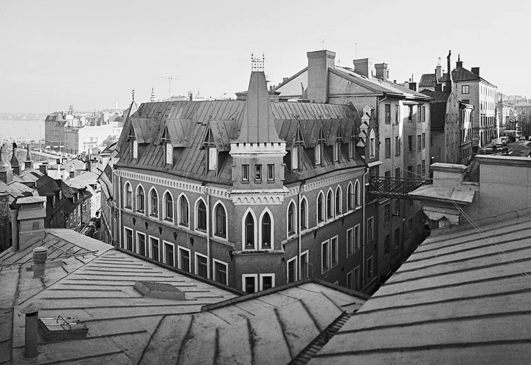 Bellmansgatan 2, vy från taket mot kv. Tofflan. 1971-1971FOTOGRAF: Fredriksson, Göran H.BILDNUMMER: F 96093Stadsmuseet i Stockholm